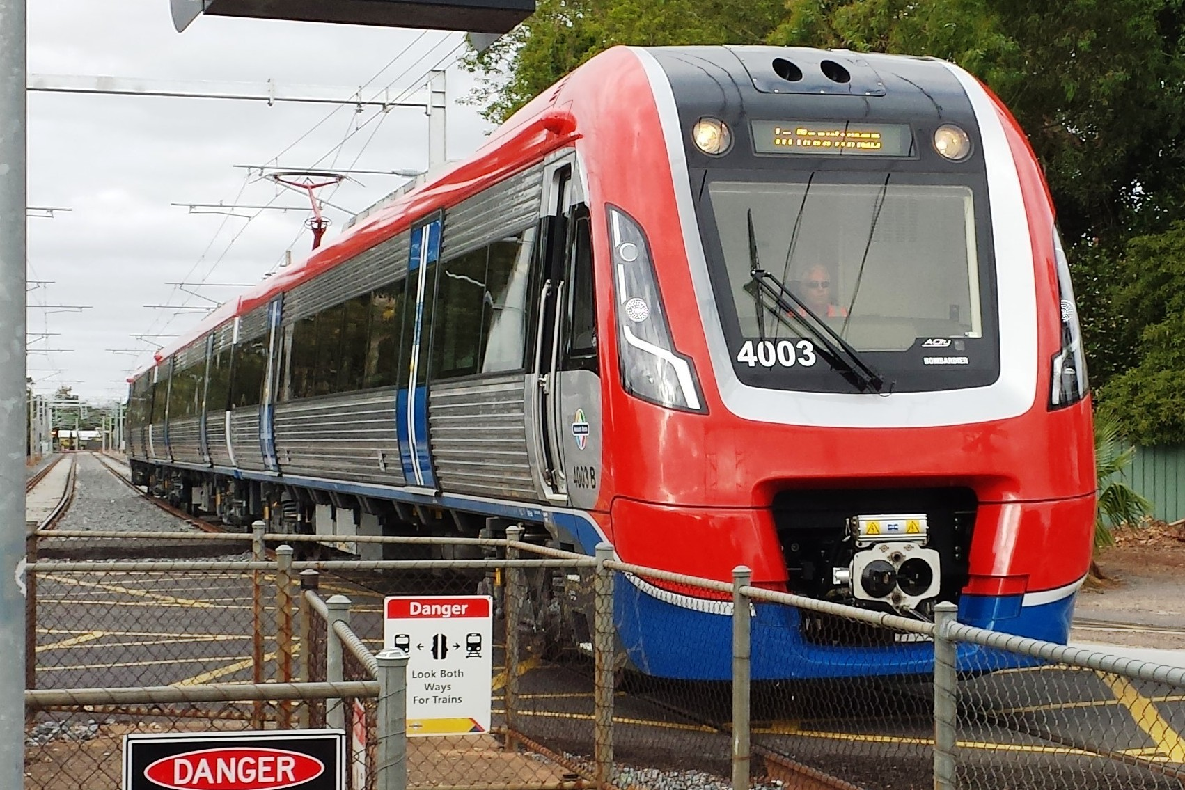 A-City EMU on the 1st day of revenue service Friday 21st February 2014.